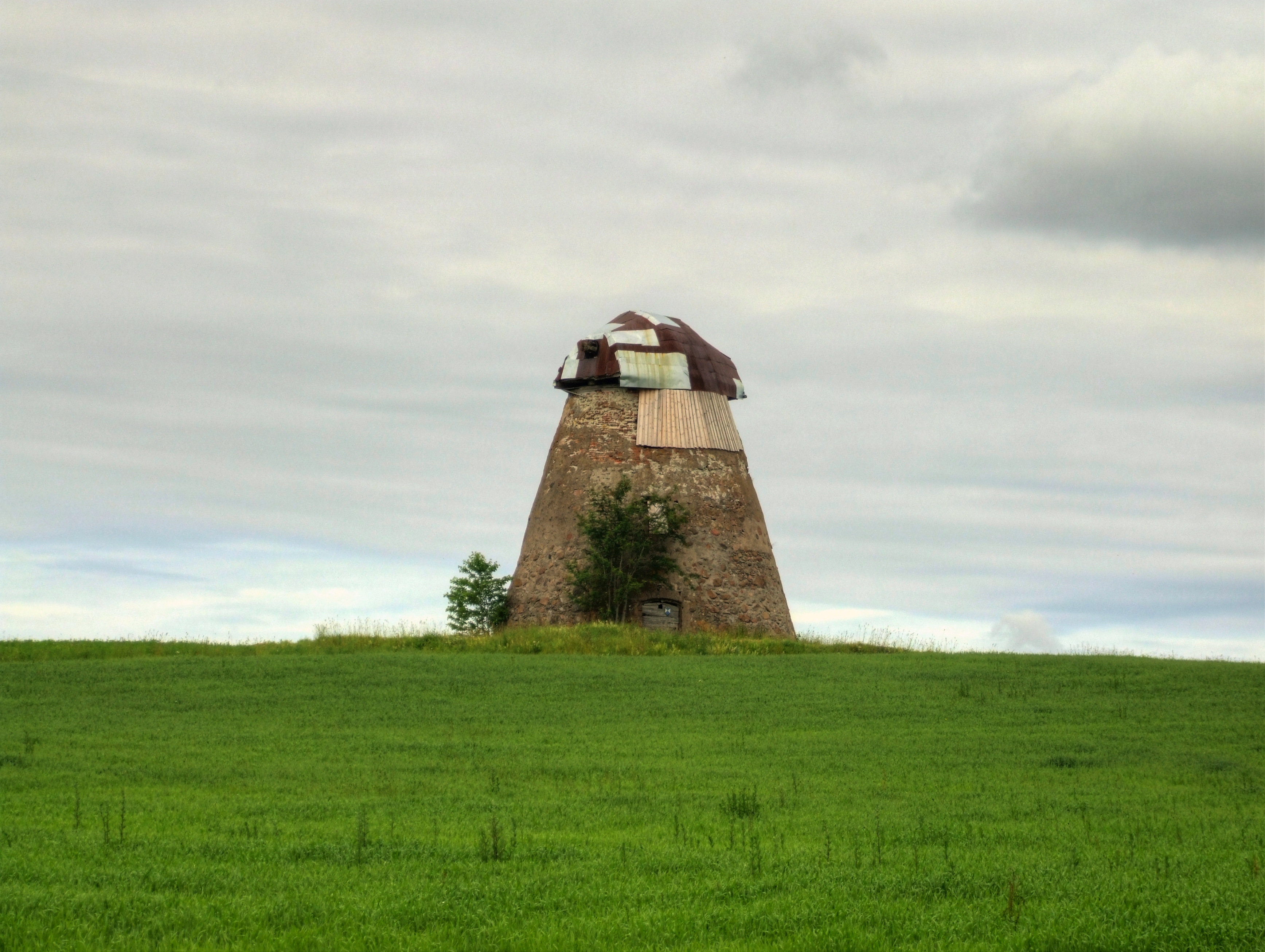 windmill